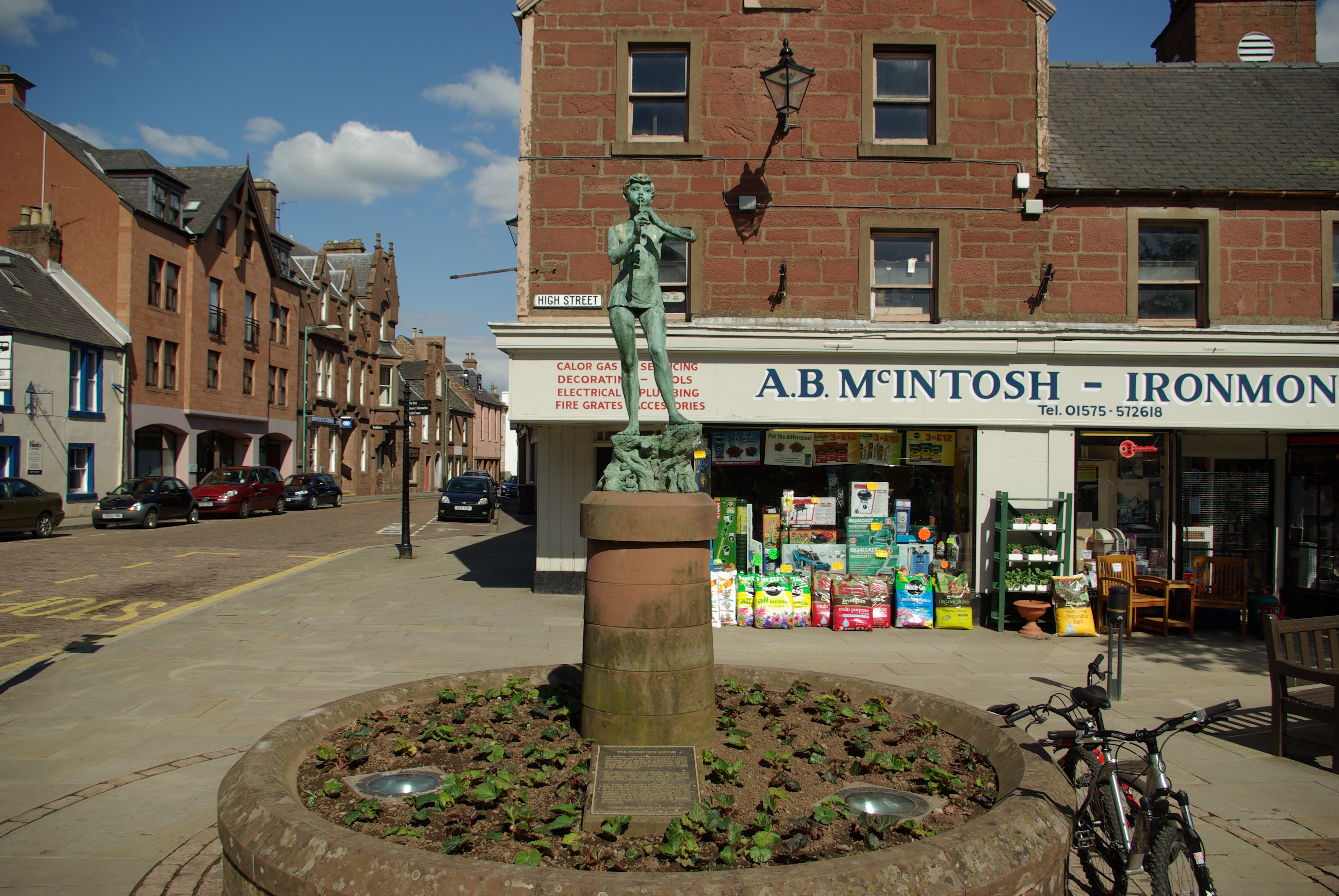 Status of Peter Pan in Kirriemuir